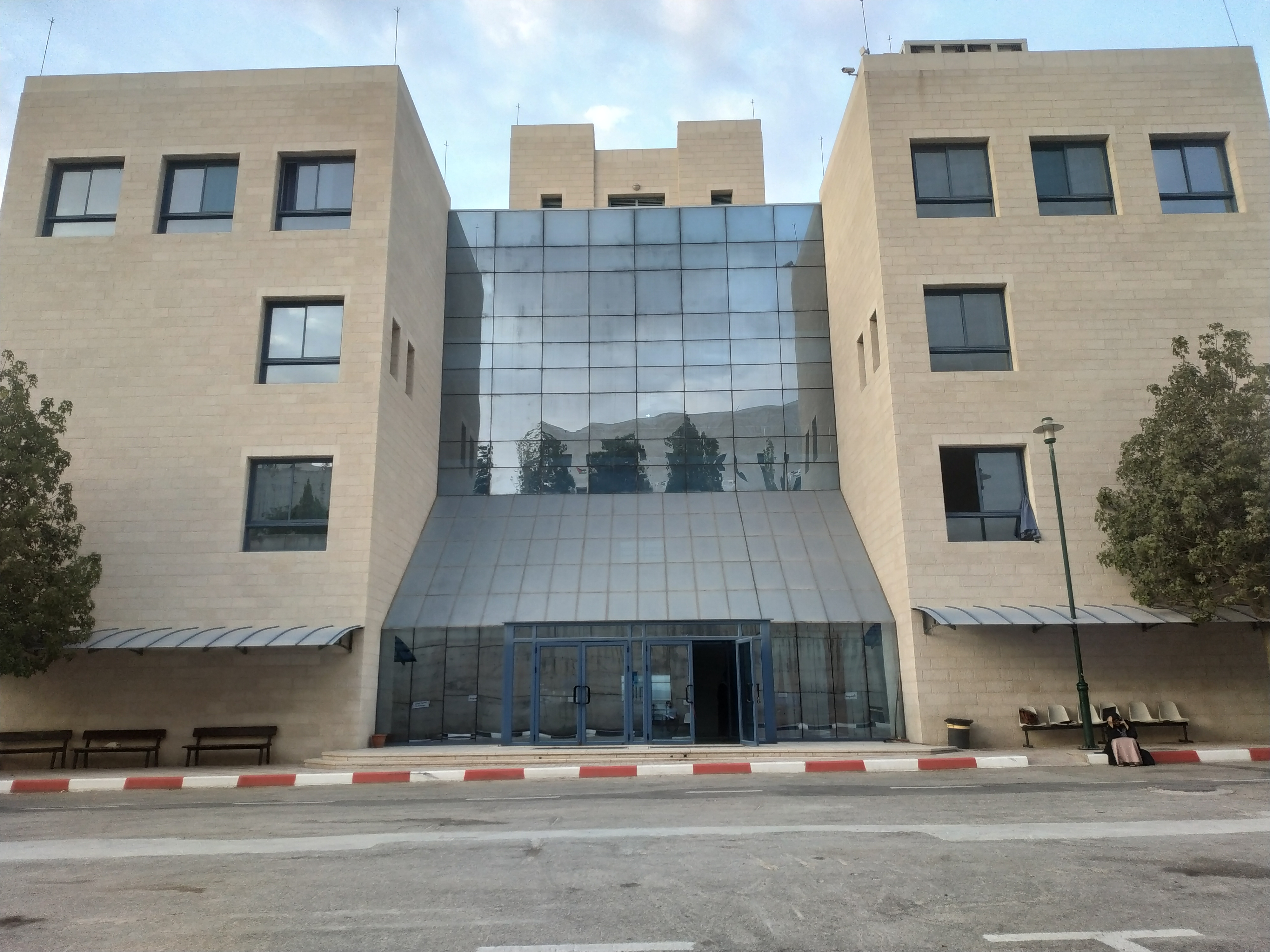 Sheikh Zayed College of Nursing and Optics at An - Najah National University